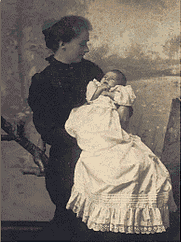 Portraity of woman with child in christening gown